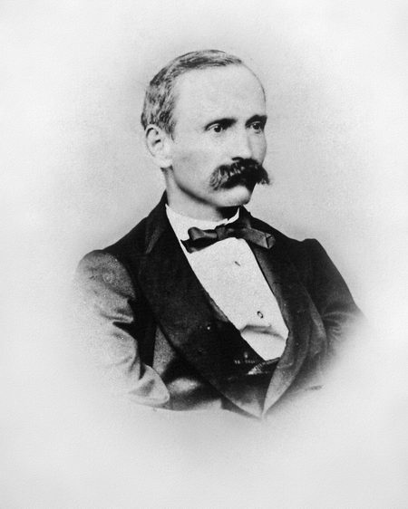 Serbian minister of justice (1861-1869)